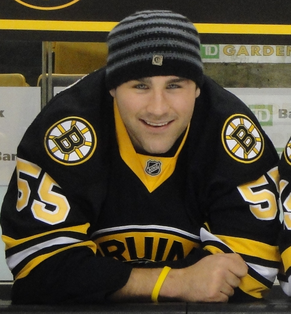 Johnny Boychuk at the Boston Bruin's Slice the Ice event on Dec 12, 2010 at the TD Garden, Boston, MA. The picture is mine.